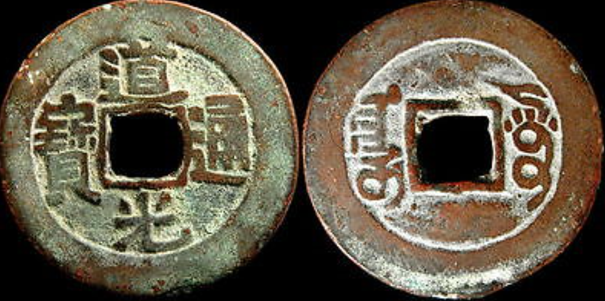 An East-Turkestani “Red Cash” coin designed to have the same metallurgical specifications (alloy) as Muslim Pūl (ﭘول) coins, and to circulate alongside them. Minted at the Aksu mint (Manchu script: ᠠᡴᠰᡠ ; Arabic script: ئاقسۇ).